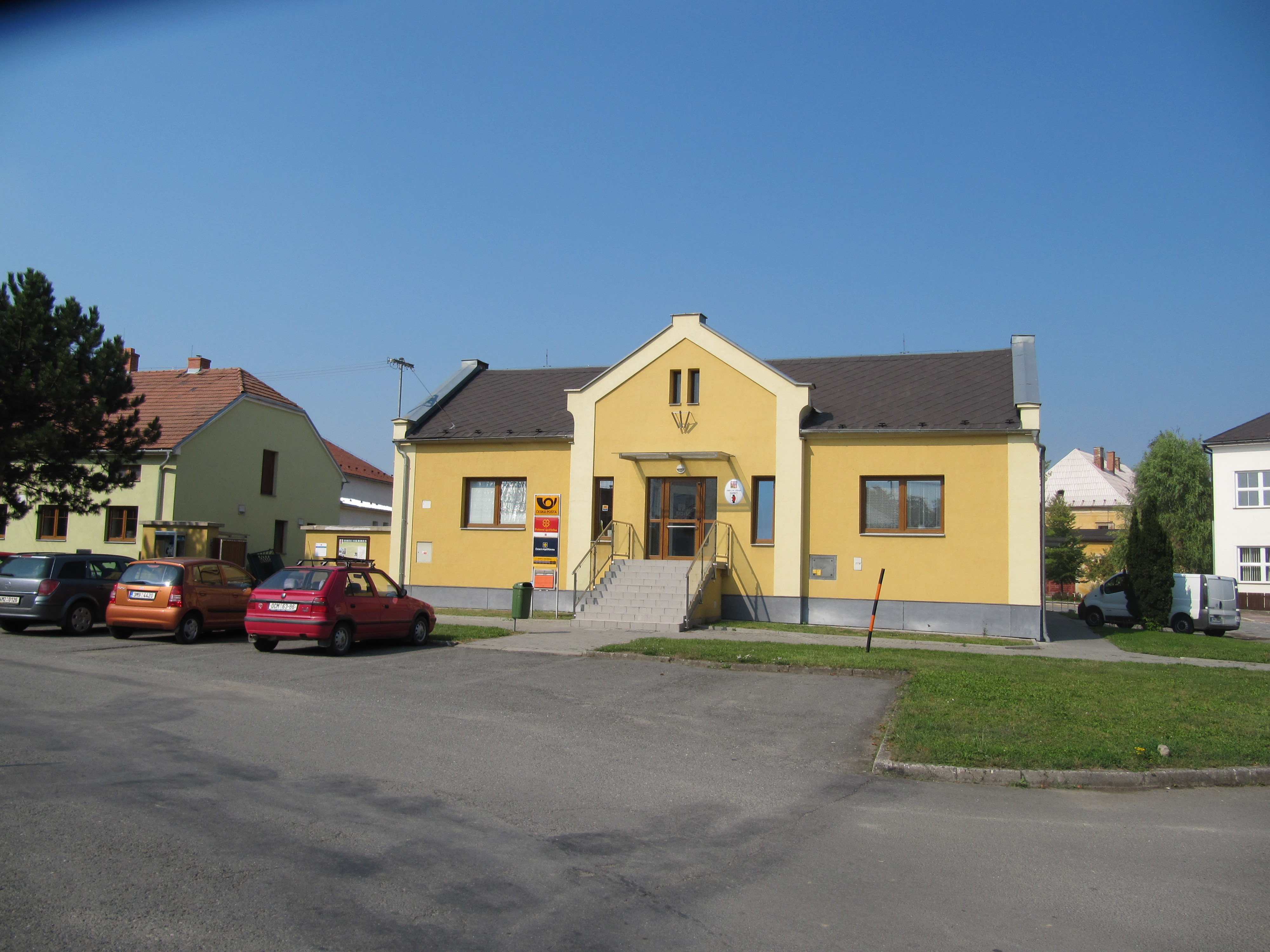 Skrbeň in Olomouc District, Czech Republic. Municipal office with library and post.